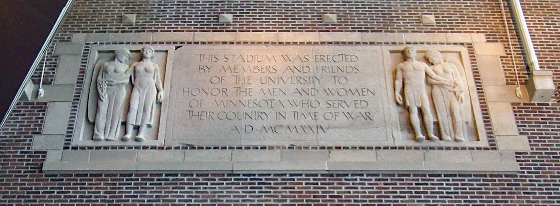 Inscription detail of the preserved façade of Memorial Stadium, McNamara Alumni Center, 200 SE Oak St, University of Minnesota, Minneapolis, Minnesota, USA.